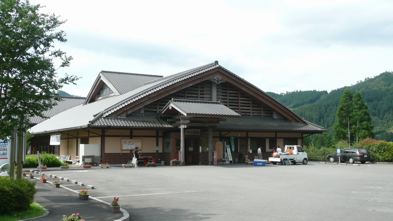 Nango Onsen Yamagiri Outside (Nangō, Misato Town, Miyazaki, Japan)